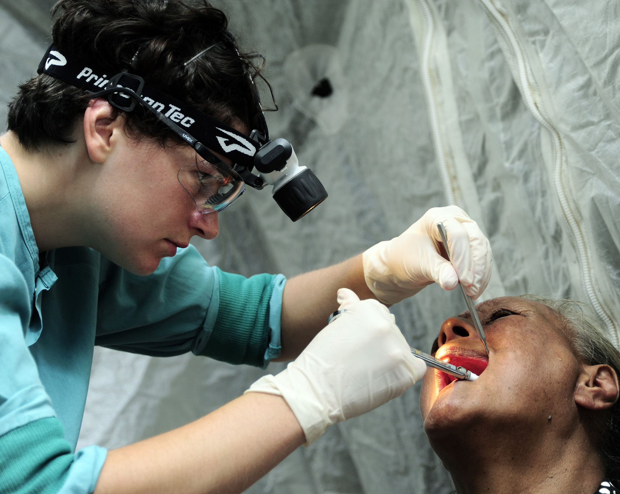 TUANEKIVALE, Tonga (April 16, 2011) Royal Australian navy dentist Lt. Shannon Godfrey uses anesthesia on a Tongan woman before extracting a tooth at the Tuanekivale medical site during Pacific Partnership 2011. Pacific Partnership 2011 is a humanitarian assistance initiative, which promotes cooperation throughout the Pacific. (U.S. Air Force photo by Tech. Sgt. Tony Tolley/Released)